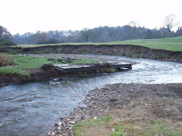 Afon Clywedog in Erddig Park. The Afon Clywedog flows through the National Trust property by Wrecsam.